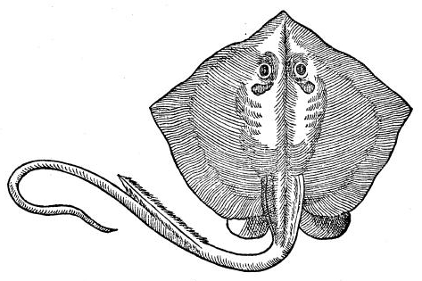 European Sting Ray, Pastinaca marina (=Dasyatis pastinaca).